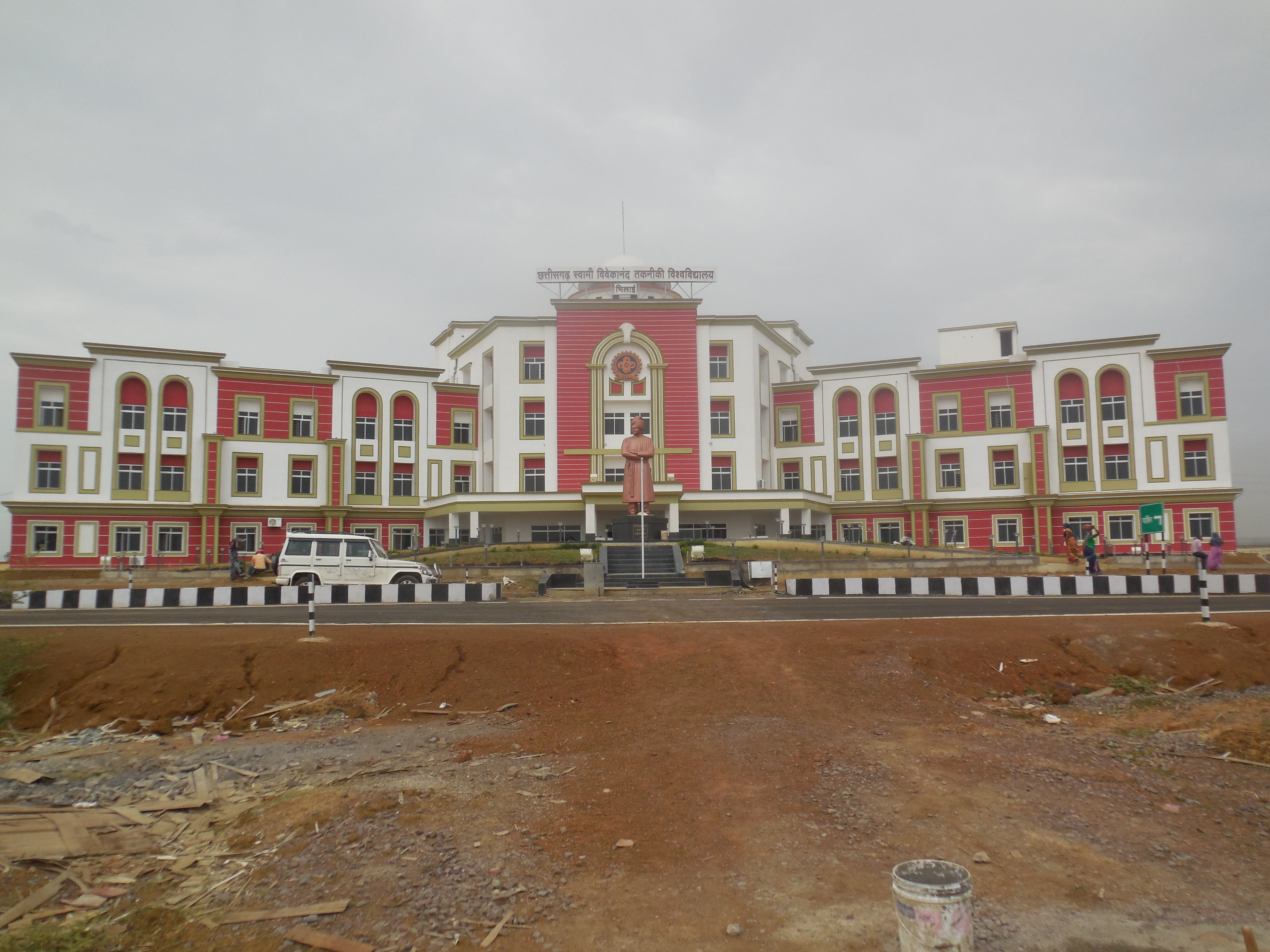 Chattisgarh Swami Vivekanand Technical University, Bhilai, Chattisgarh, India